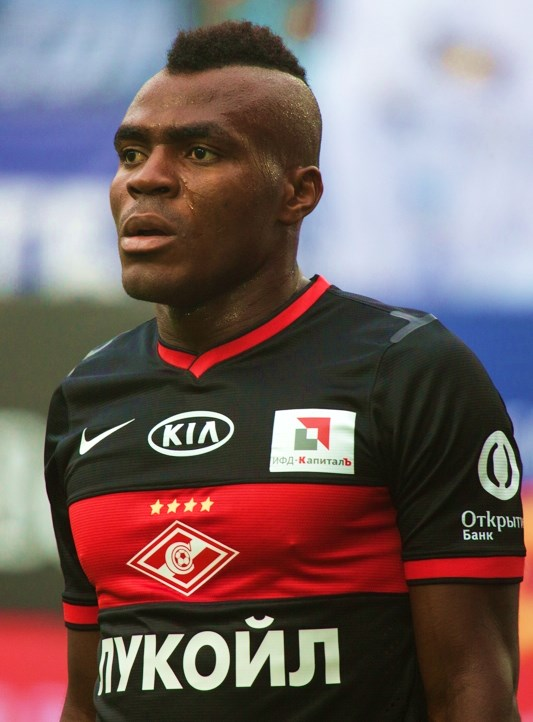 Emmanuel Chinenye Emenike